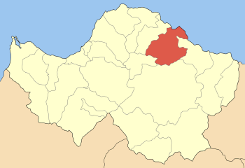 Locator map of Aegion municipality (Δήμος Αιγίου) in Achaia perfecture (Νομός Αχαΐας) in Greece.